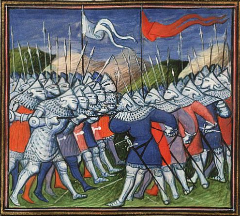 Jean Froissart, Chroniques (Vol. I): The battle of Navaret Place of origin, date: Paris, Virgil Master (illuminator); c. 1410 Material: Vellum, ff. 382, 385x288 (243x187) mm, 42 lines, littera cursiva, Binding: 18th-century brown leather; gilt; with coat of arms of Stadholder William V Decoration: 1 two-column miniature (170x180 mm); 29 column miniatures (115/65x95/80 mm); 1 historiated initial (45x50 mm); decorated initials with border decoration (ff. 1r, 24r, 36r, 62r, 74v, etc.) Provenance: Louis de Luxemburg, conn‚table de France (d. 1475; signature, erased); by descent to his granddaughter Françoise de Luxembourg and her husband Philip of Cleves (d. 1528; coat of arms with label, over erasure; signature); purchased in 1531 from Philip's estate by HenriIII, Count of Nassau (d. 1538); by descent to the Princes of Orange-Nassau, the later Stadholders, at The Hague; carried off in 1795 to Paris by the French and restituted to the Koninklijke Bibliotheek in 1816